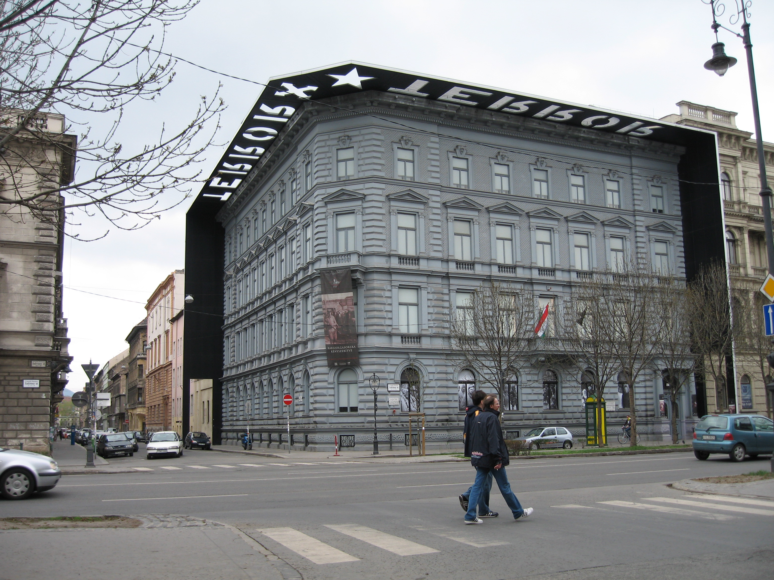 Hungarian Secret Police HQ — now the House of Terror Museum. Communist era in Hungary.